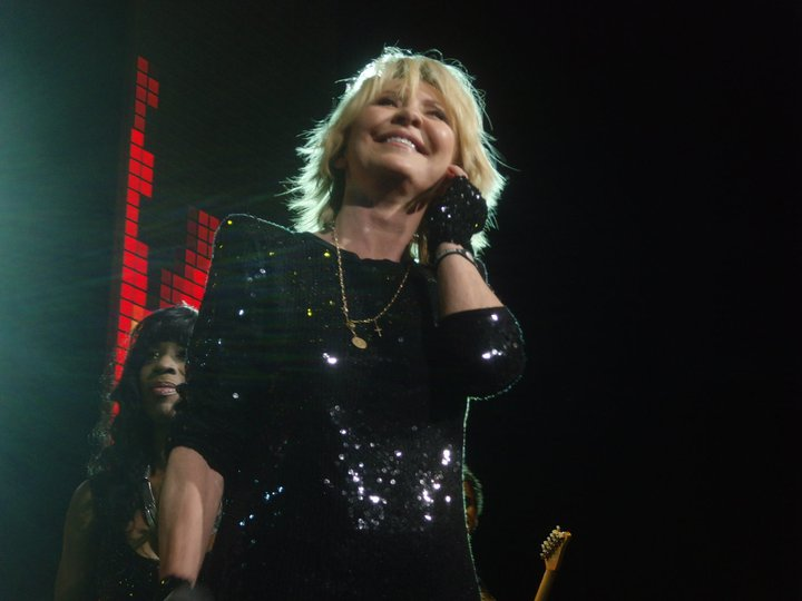 Lulu on stage as part of the 2010 Here Come The Girls tour in Glasgow.